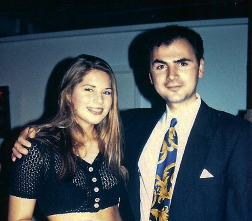 Dejan Stojanović (right), Chicago, 1994